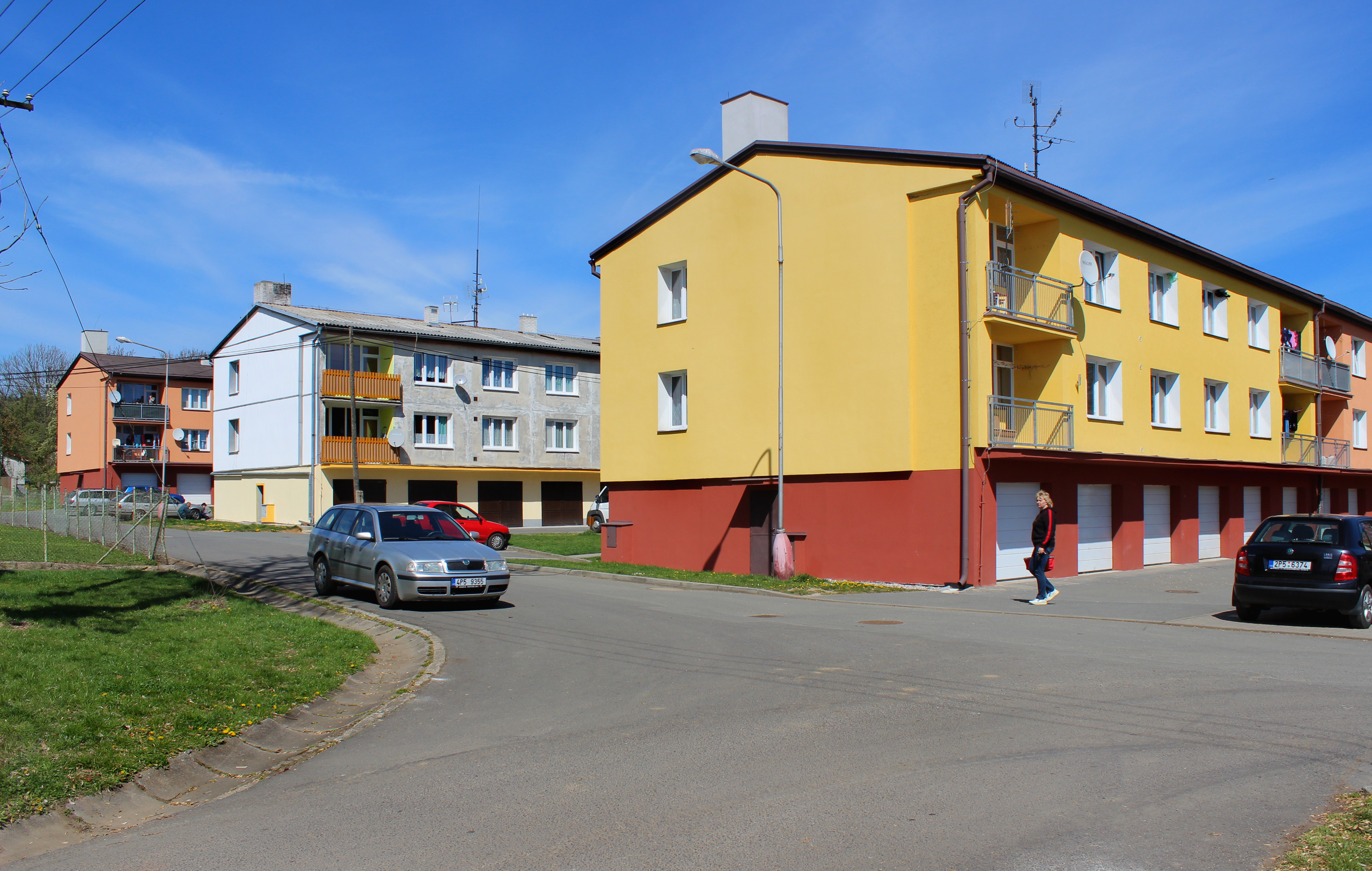 Tenement houses in Záchlumí village, Czech Republic